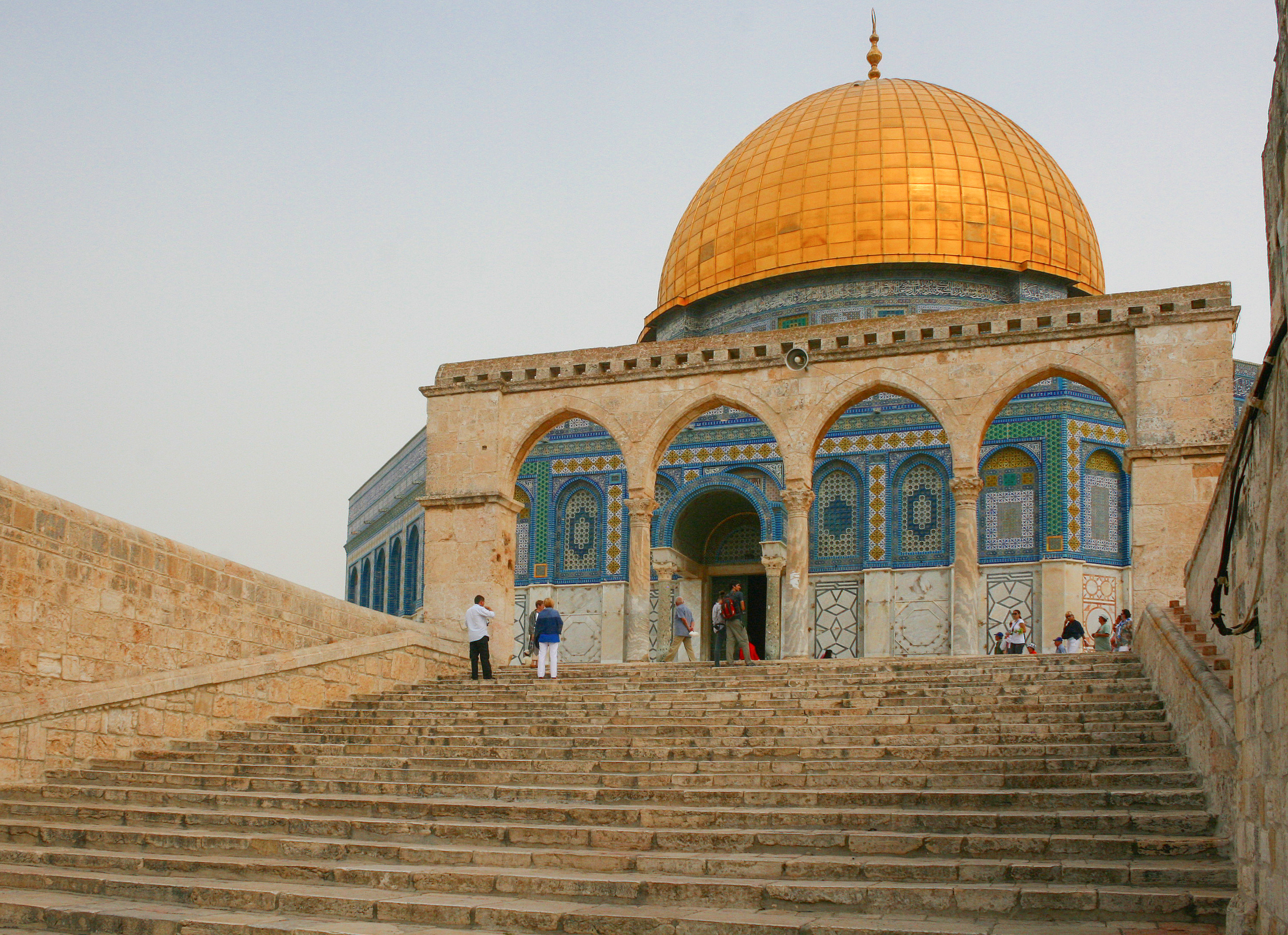 Al-mawazin next to the Dome of the Rock, Jerusalem